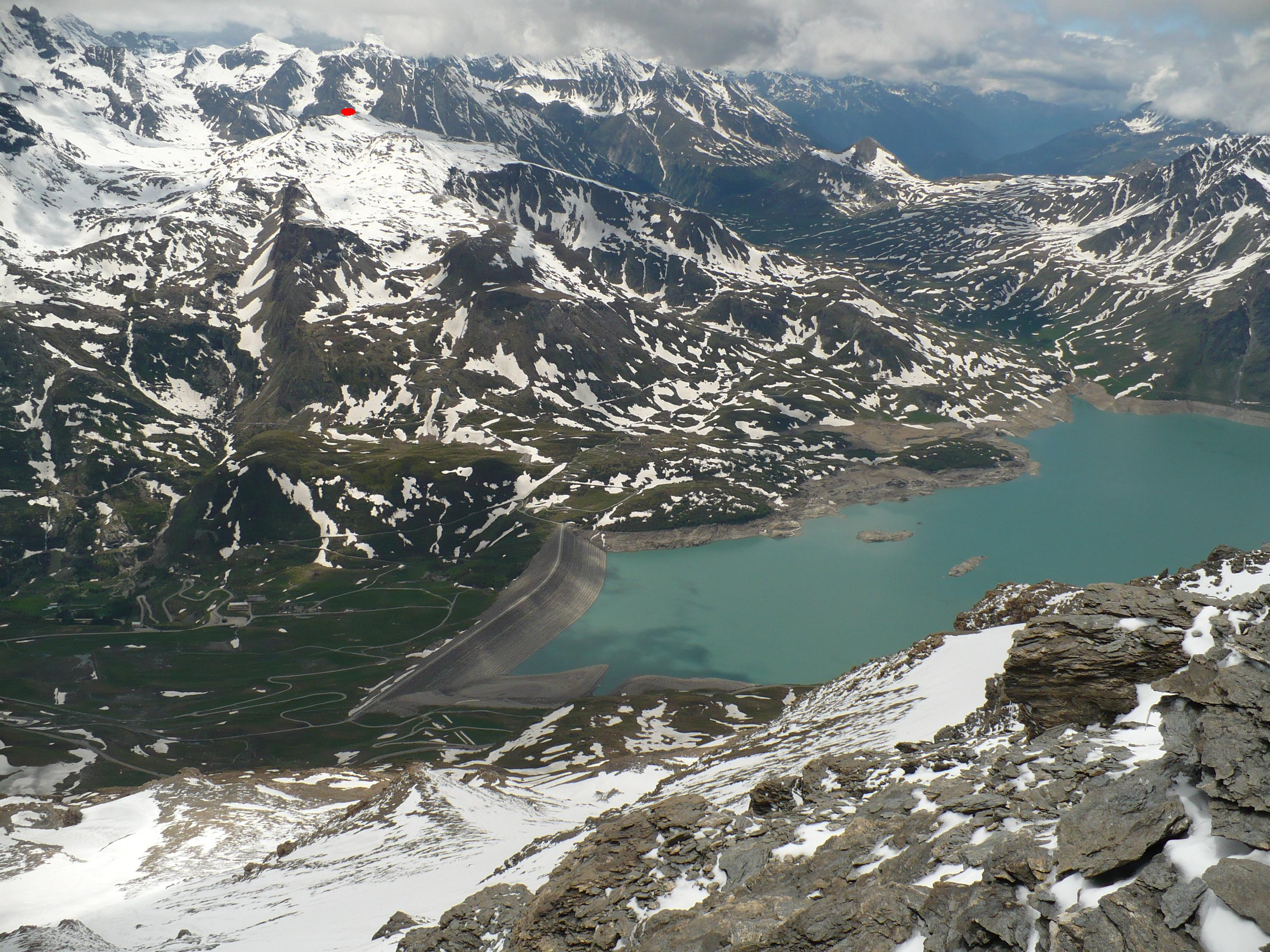 Lake of Moncenisio and Mont Malamot - Cottian Alps